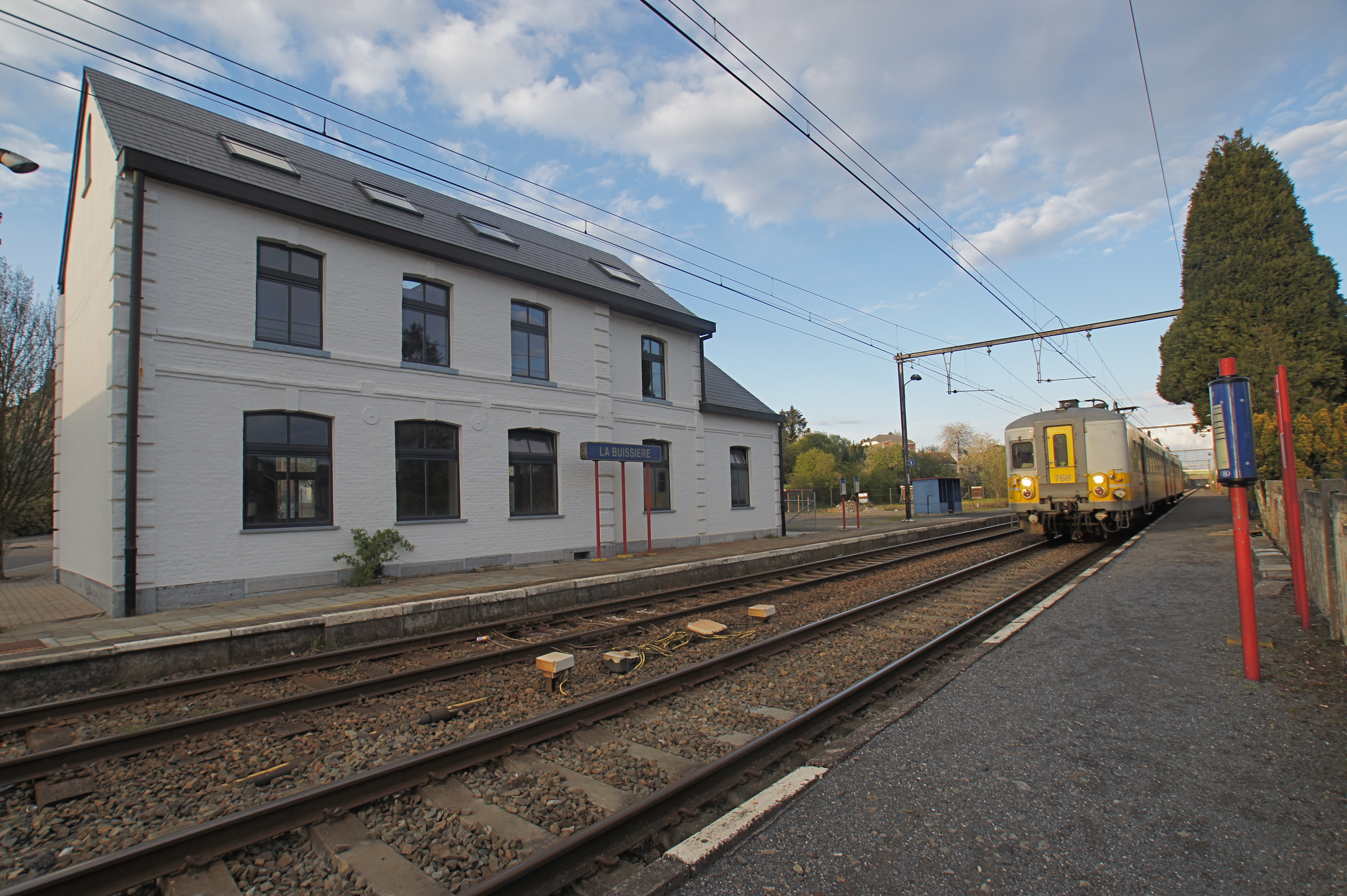 Labuissière, Belgium: NMBS Railway station